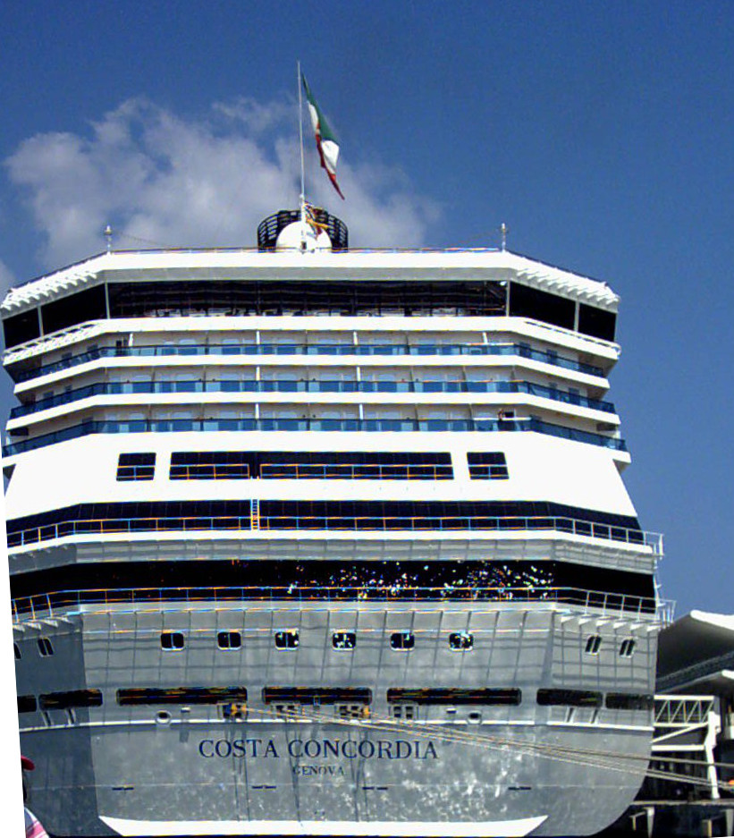 Costa Concordia in Savona (2010)